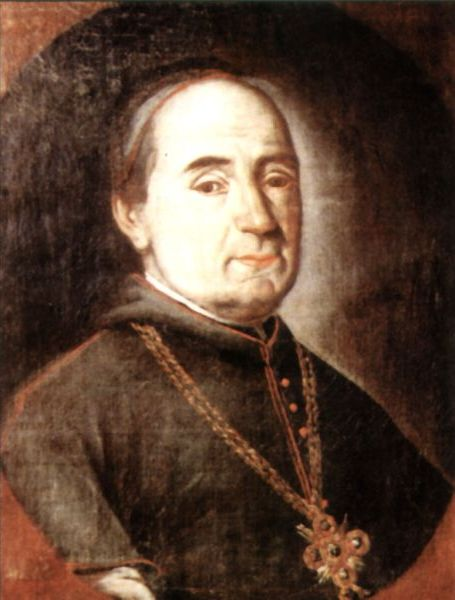 Florian Amand Janowski OSB (1725-1801), Bischof von Tarnow von 1786 bis 1801